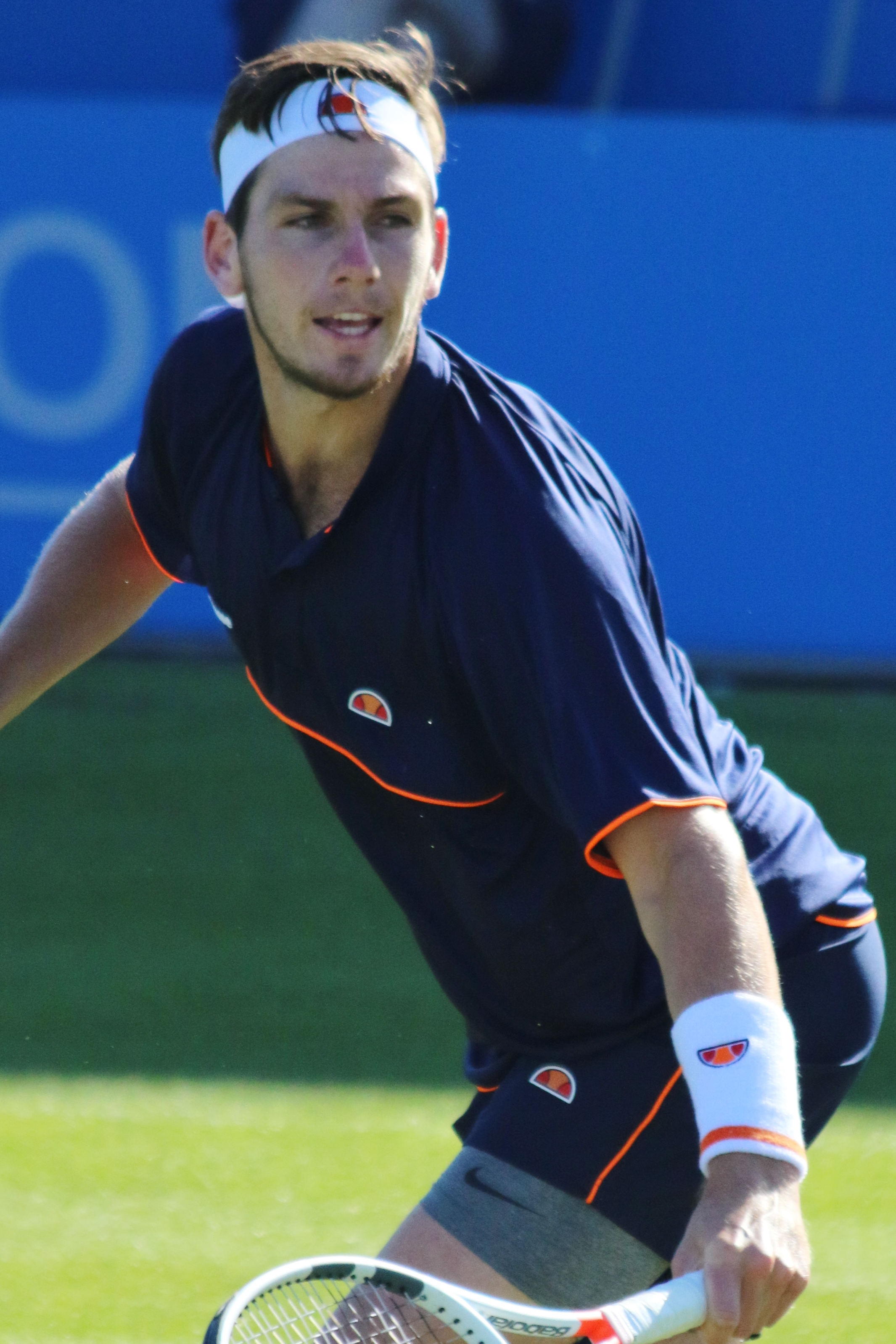 Cameron Norrie Eastbourne 2017